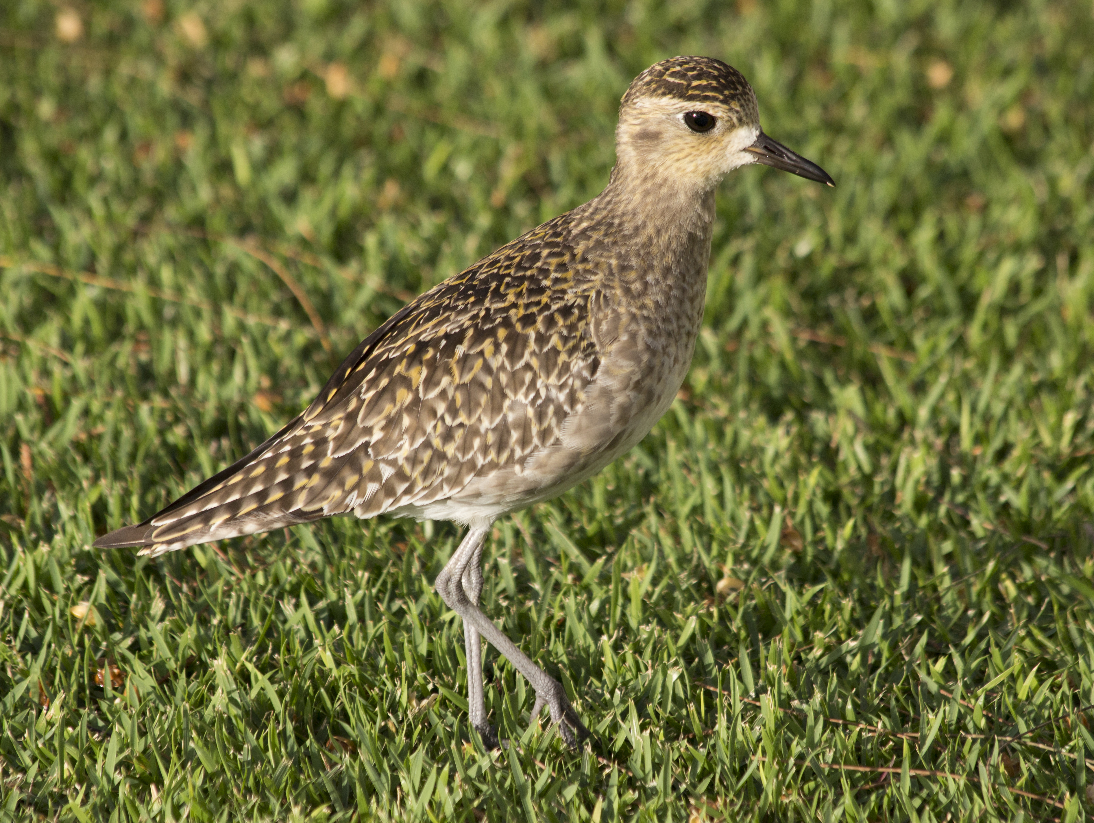 Photographed near Kapaa, Kauai, Hawaii.